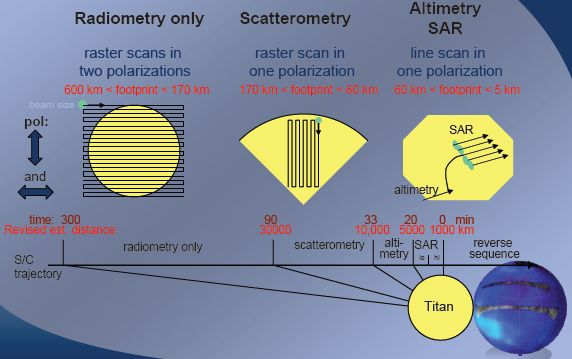 Cassini radar opertion modes